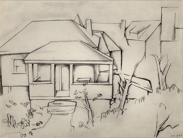 House by Stefan Hirsch, 1920, Graphite on paper, 7⅝ x 9⅞ inches